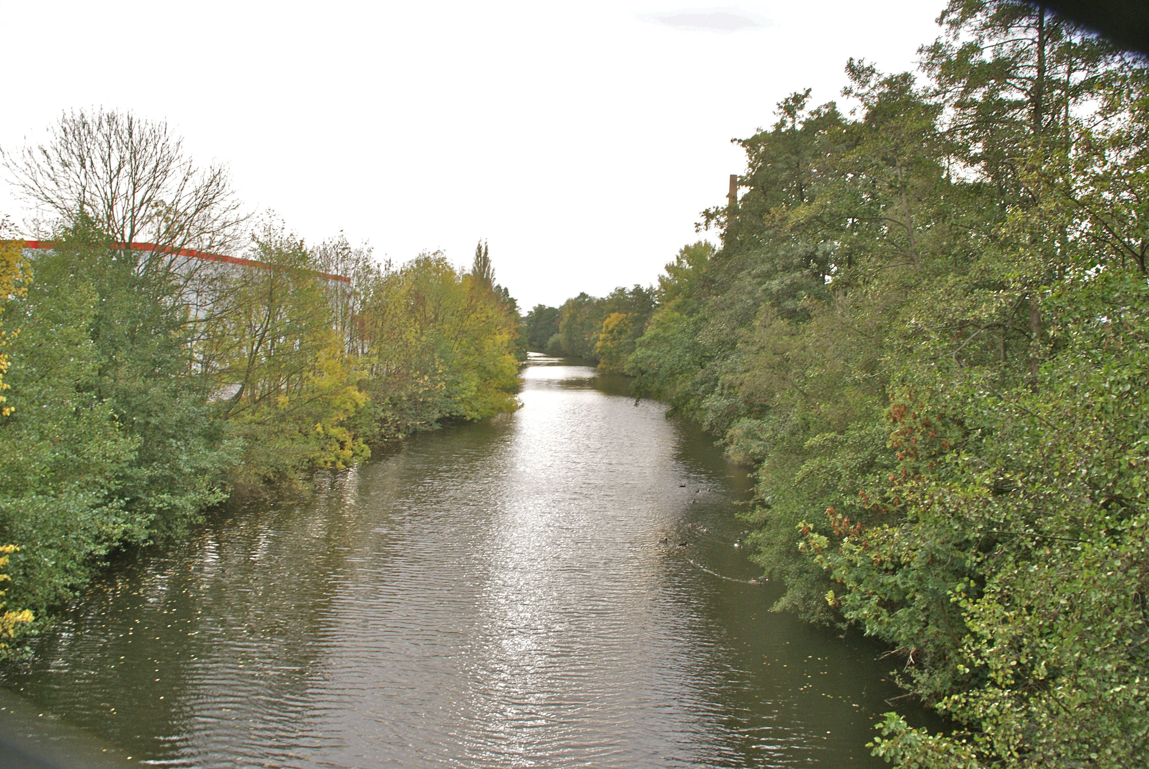 Hamburg (Bergedorf), Germany: The Schleusengraben